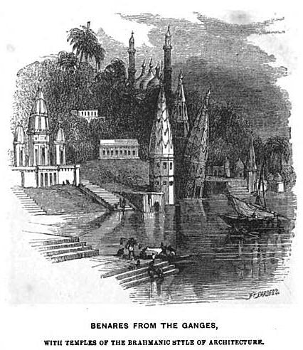 Plate 'Benares from the Ganges', from Robert Hunter's History of India from the Earliest Ages, T. Nelson and sons, 1863